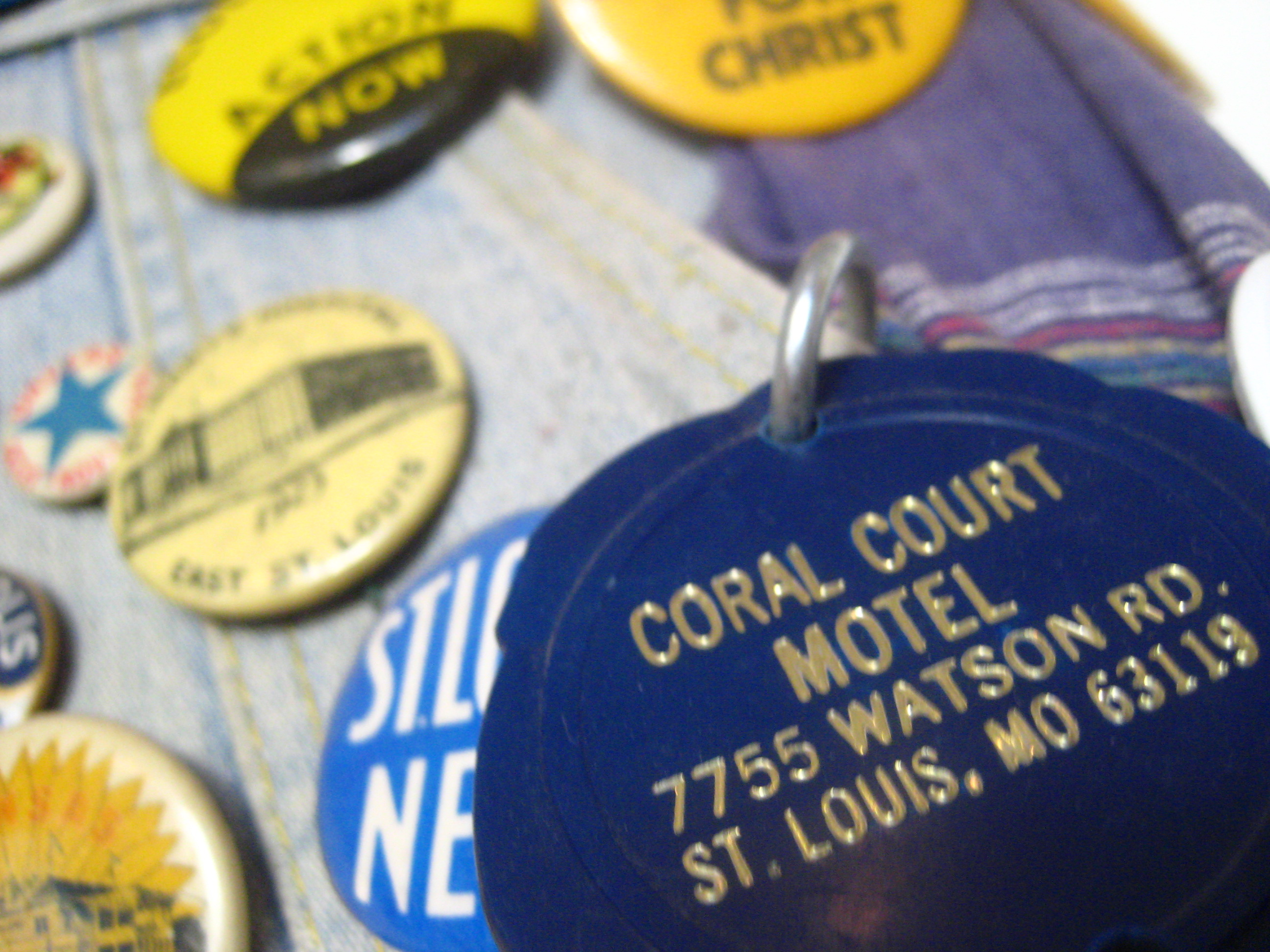 The Coral Court Motel was a 1941 U.S. Route 66 motel listed on the National Register of Historic Places in St. Louis County in 1989 as an example of the art deco and streamline moderne architectural styles. The classic "no-tell motel" as each unit had its own enclosed garage, it was demolished in 1995 and the land sold for over a million dollars as the site of a suburban housing development.